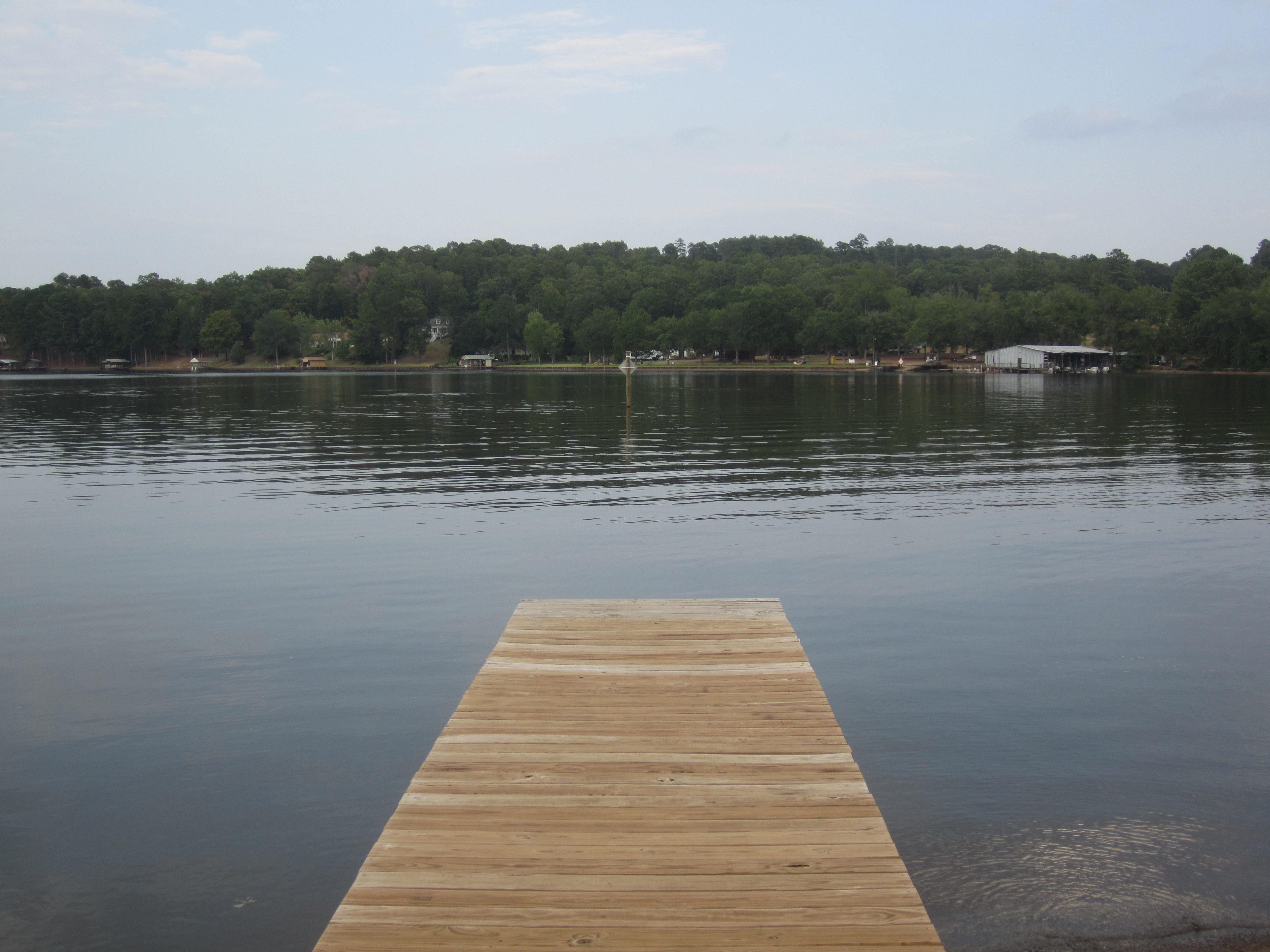 I took photo of Lake Claiborne, LA, east of Homer, with Canon camera.